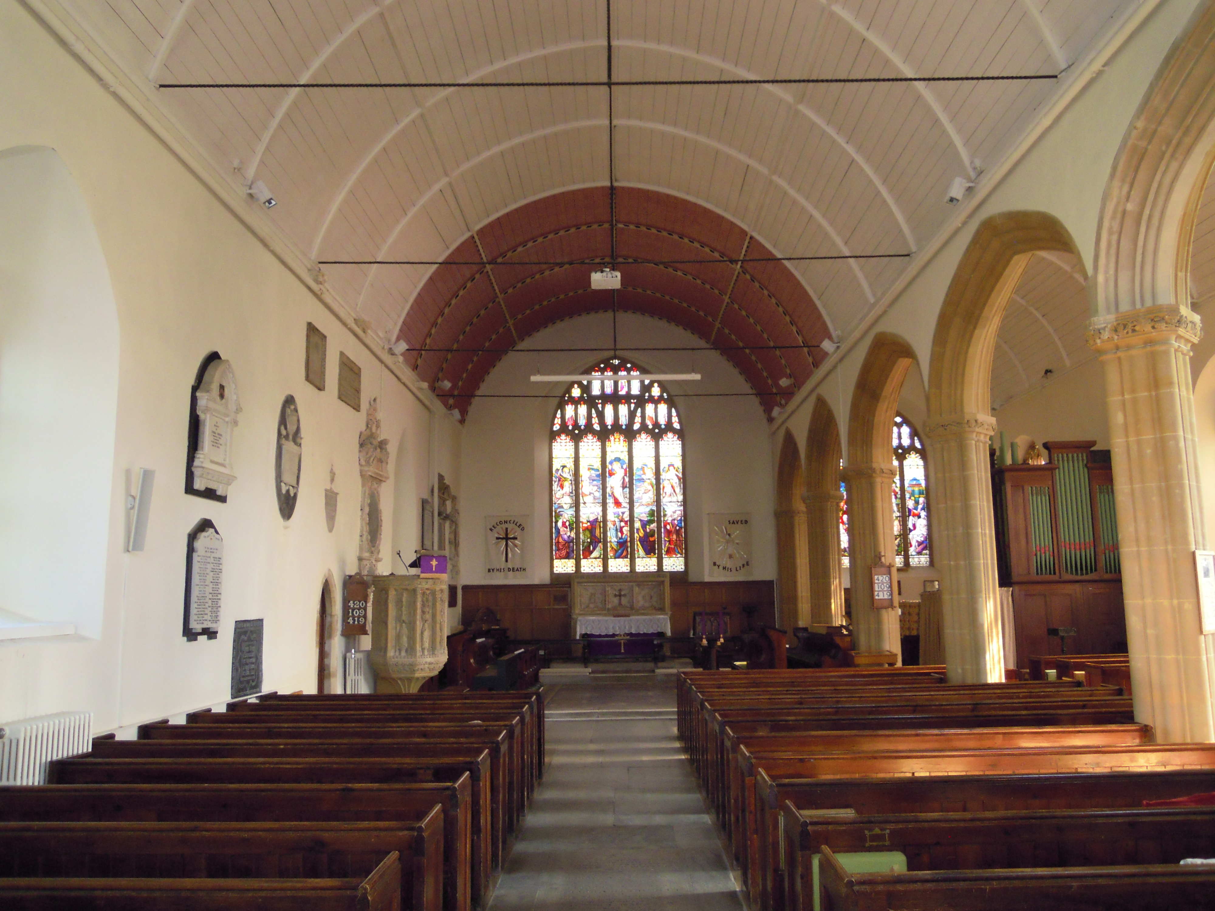 View down the nave towards the chancel in the Church of St Peter in Fremington in Barnstaple, Devon